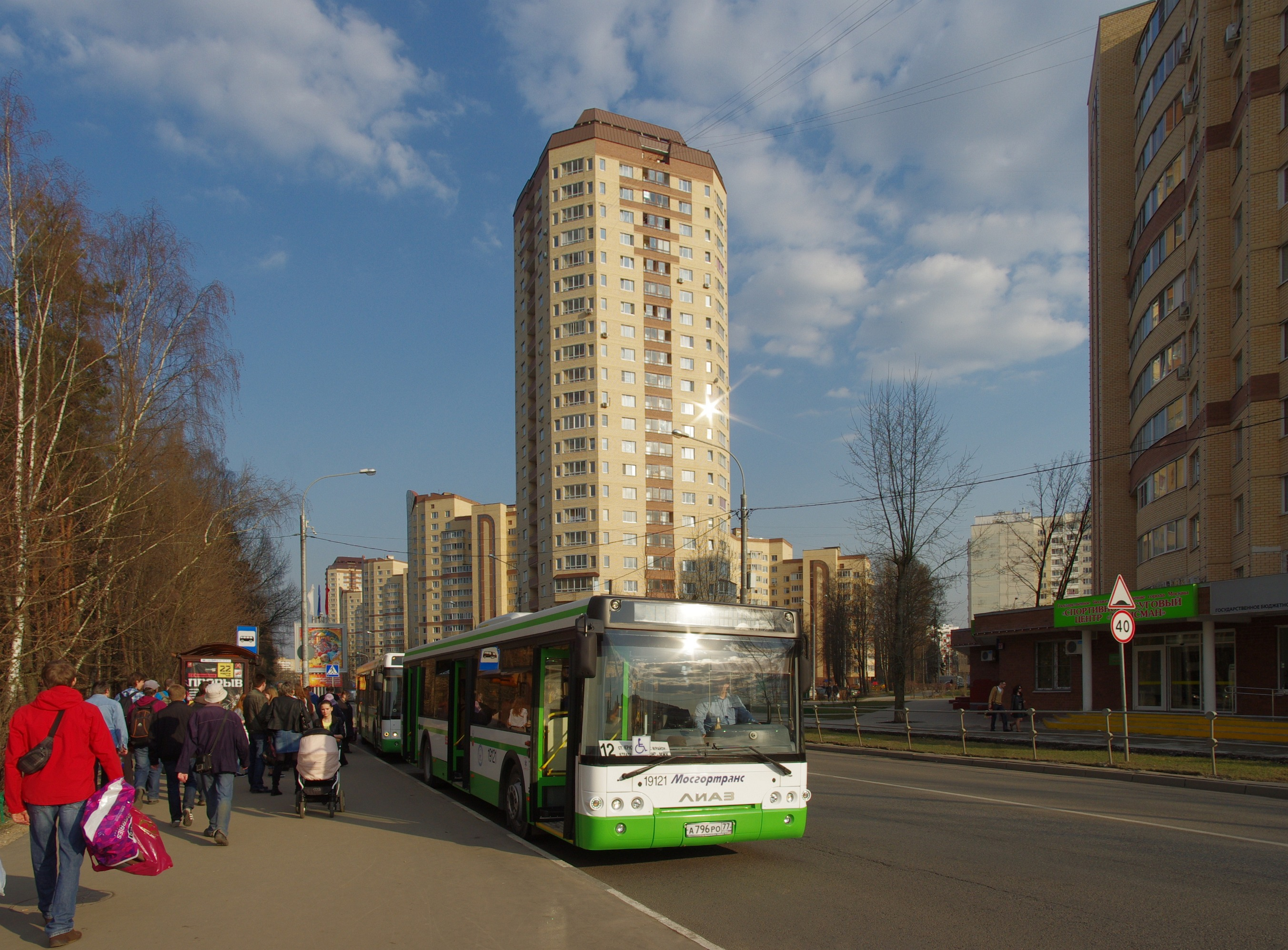 See georeference